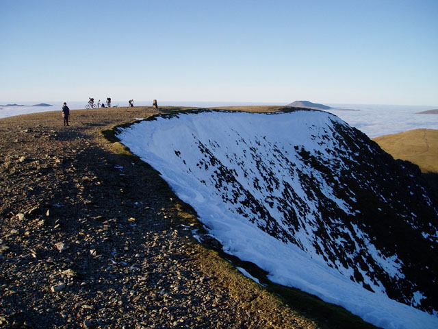 Summit of Helvellyn, Lake District, England. By Blisco, 23 December 2006.